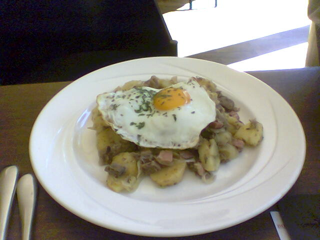 Tiroler Gröstl, an austrian dish. [Original flickr descrption: Lunch of my colleague Silvia.]